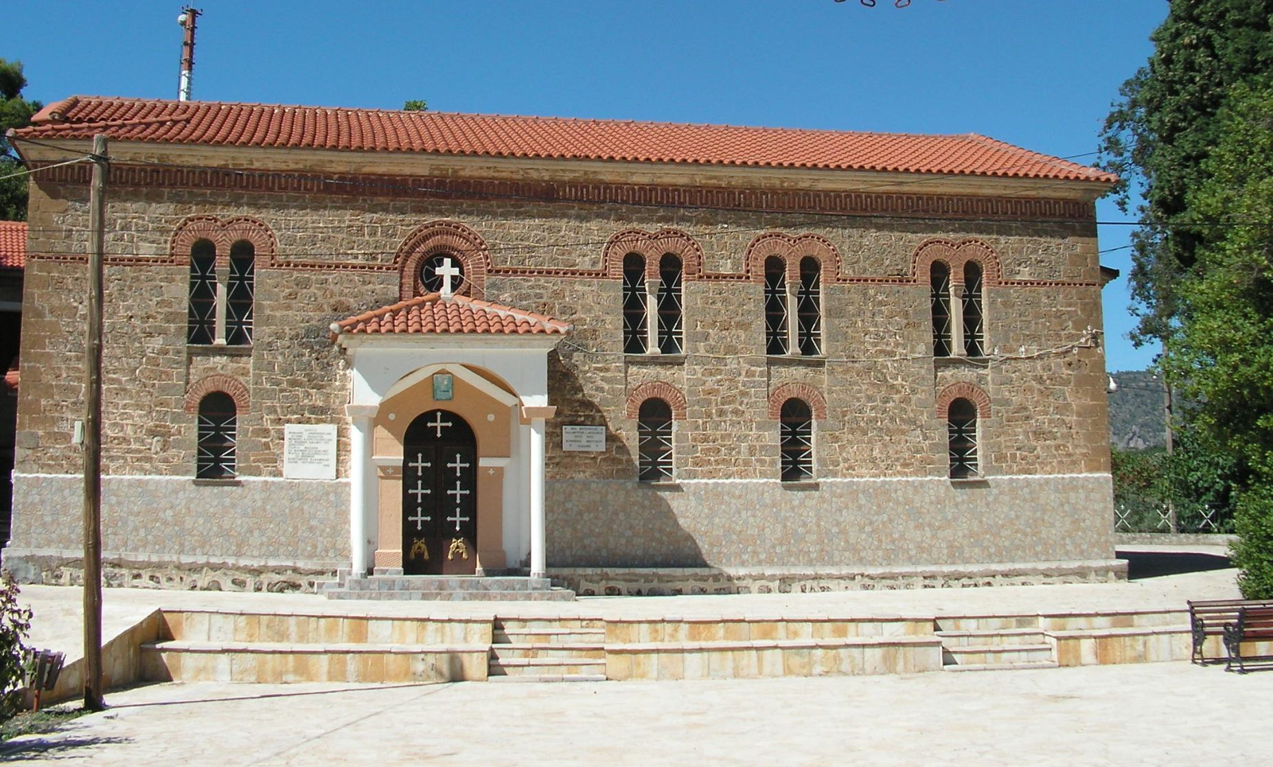 The Dormition of the Theotokos church located in the center of the village is the main church of Seliana.